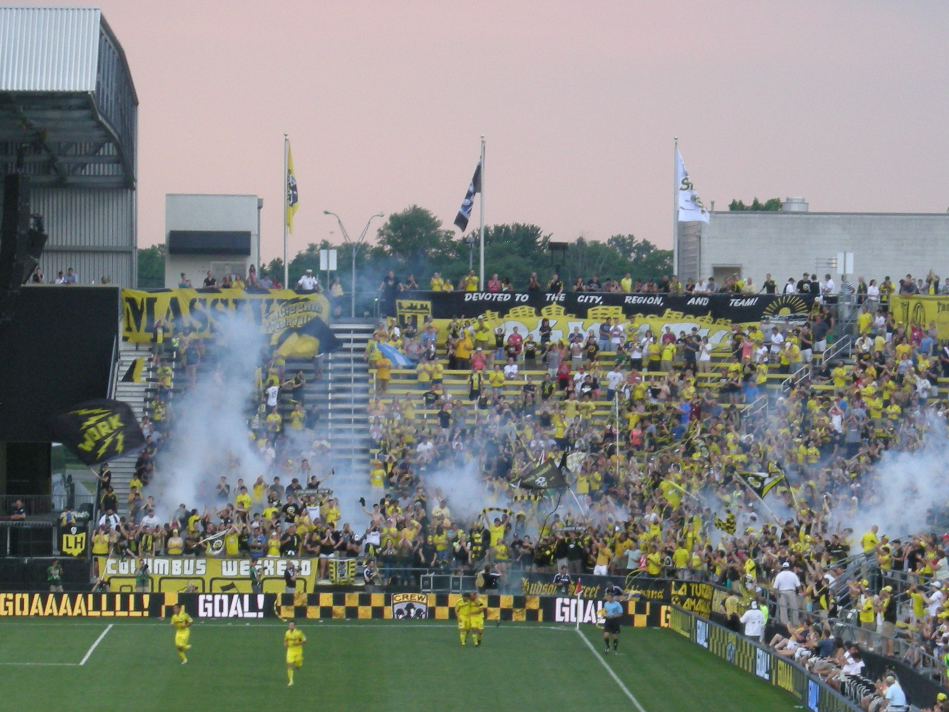 Columbus supporters celebrate a goal during the match between the Chicago Fire and the Columbus Crew at Columbus Crew Stadium in Columbus, Ohio (United States). Final score: Columbus 1 – 2 Chicago.